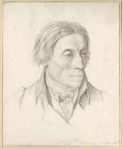 The german painter Joseph Hauber (1766-1834)